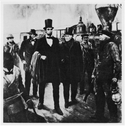 Lincoln arriving in Washington with his African-American valet and bodyguard, William Henry Johnson for the 1861 inauguration. The print was first published in the Washington Evening Star. Johnson is in the left-hand corner.